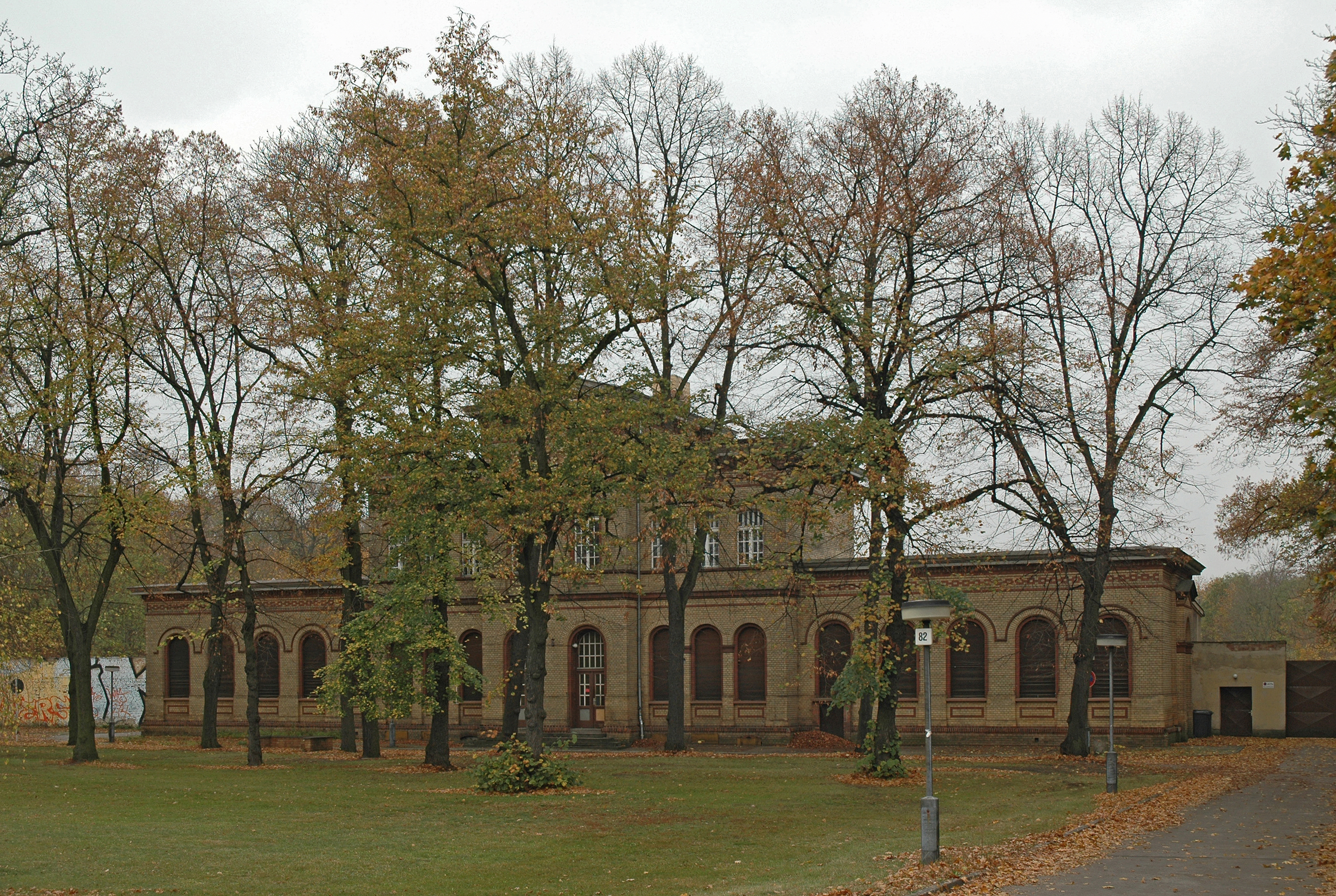 Club house of the shooting club "Schönholzer Heide", Berlin-Pankow.